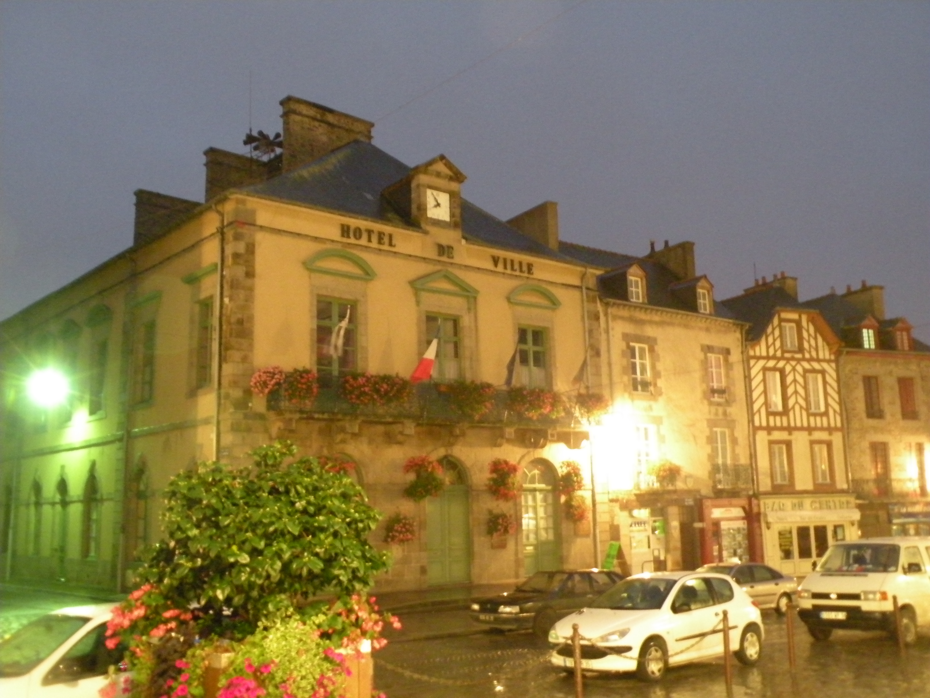 Town hall of Dol-de-Bretagne.